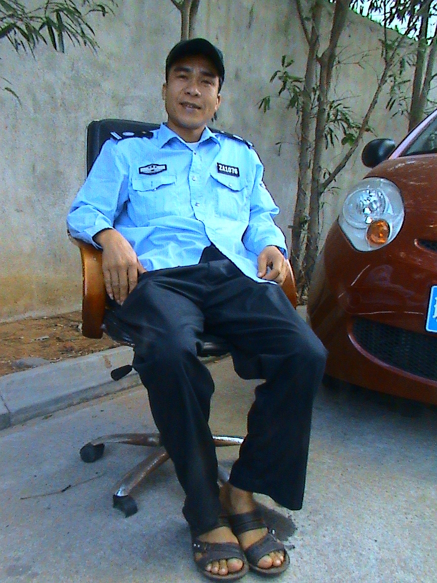 A security guard protecting the entrance to an apartment building, and managing the parking of cars in Haikou, Hainan Province, China.